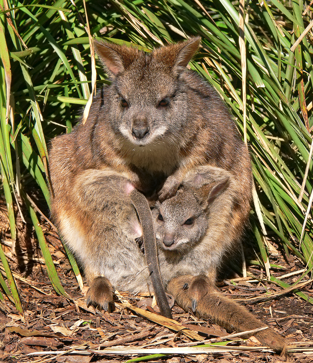 Parma Wallaby mother and joey (Macropus parma)